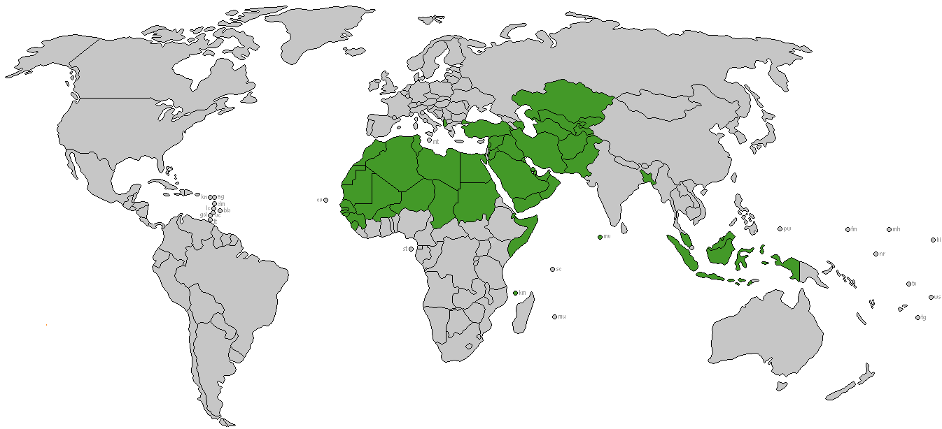 Countries with muslim majority (4 other Muslim majority countries, Eritrea, Nigeria, Ivory Coast, Bosnia and Herzegovina are missing from this map)